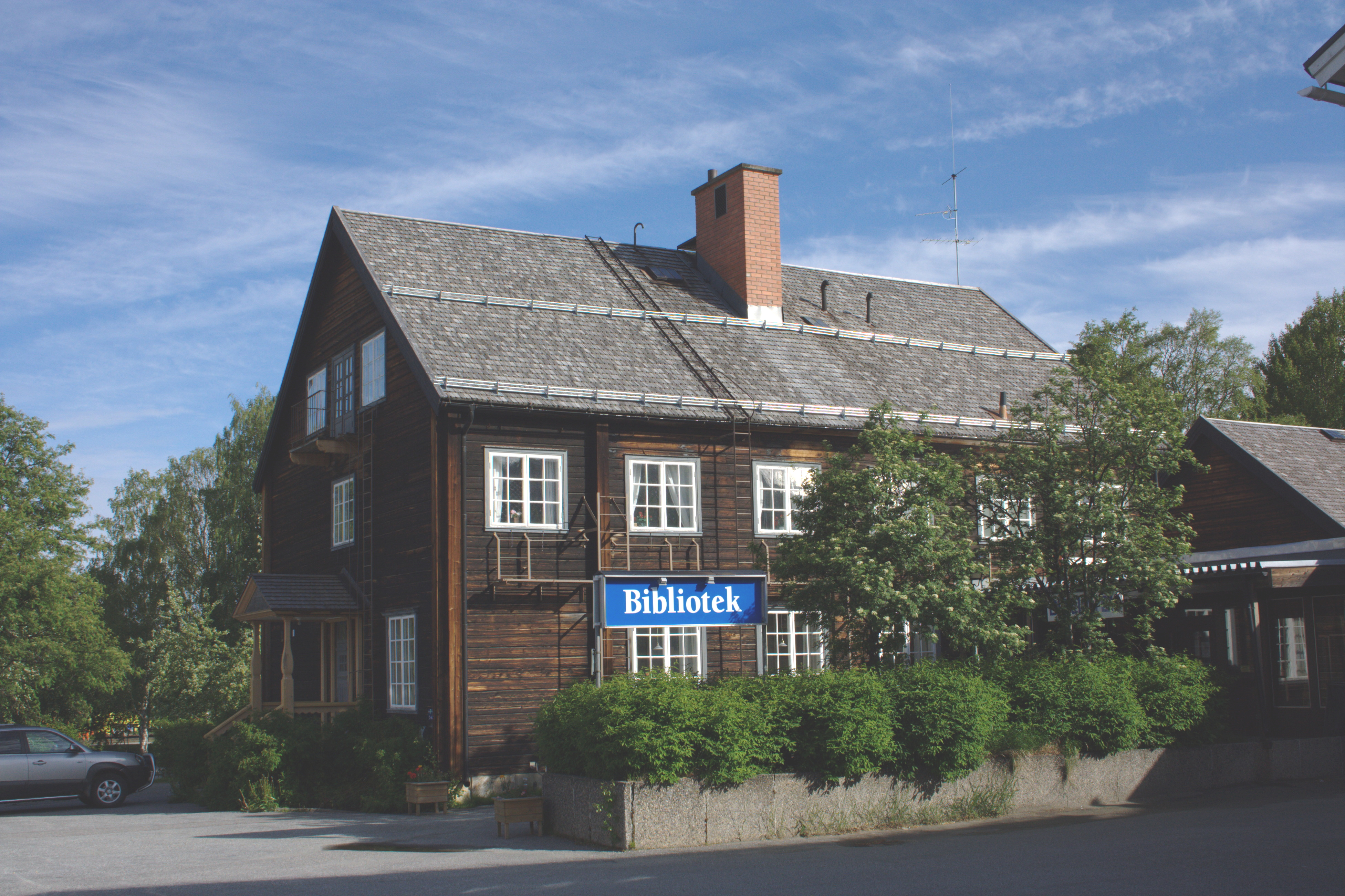 The former Railway Hotel in Storuman, now the local library